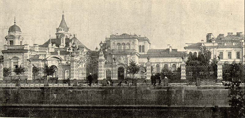 Sankt Petersburg Palace of Grand Duke Alexei Alexandrovich, brother of Tsar Alexander III. - View from the Moika River V